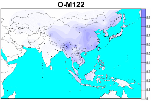 The isofrequency map portraying spatial distribution of human Y-chromosome Haplogroup O-M122 in Asia and Oceania. The dots indicate the populations and the regions from where it was sampled.